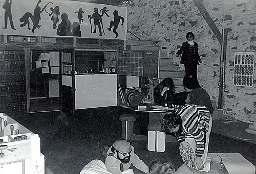 Bernie DeKoven